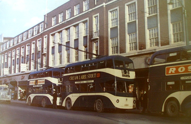 Trolleybuses on King Edward Street Kingston upon Hull This picture was taken in 1963, on King Edward Street Hull, which was the main terminus for trolleybuses in those days. The trolleybus in the centre of the picture is one of the famous and unique Coronation class of twin-door, twin-staircase Sunbeams delivered with one-manning in mind (and years ahead of their time). These vehicles were scrapped when less than 9 years old and not one Hull trolleybus was saved for preservation. The Hull trolleybus system closed down on the 31st of October 1964.